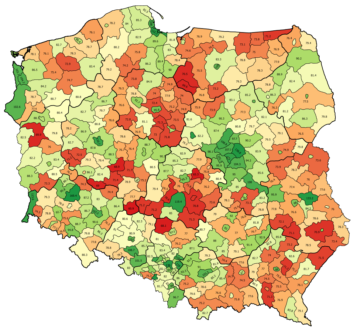 Average salaries in powiats (~counties) as % average salary in Poland in 2009 Source: GUS - Central Statistical Office - Yearbook of Labour Statistics, 2010 page 57-81